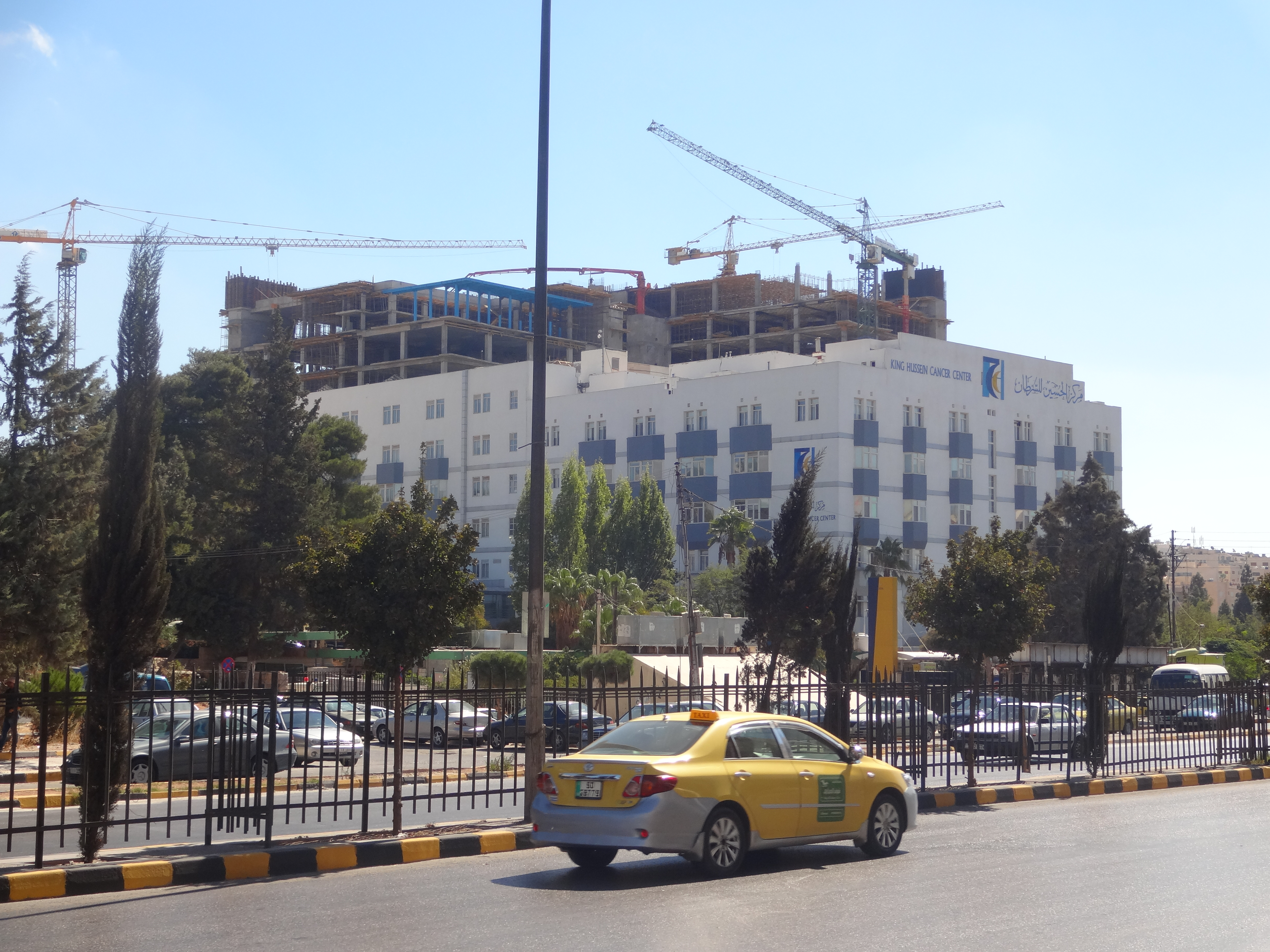 King Husain Cancer Center, Amman, Jordan